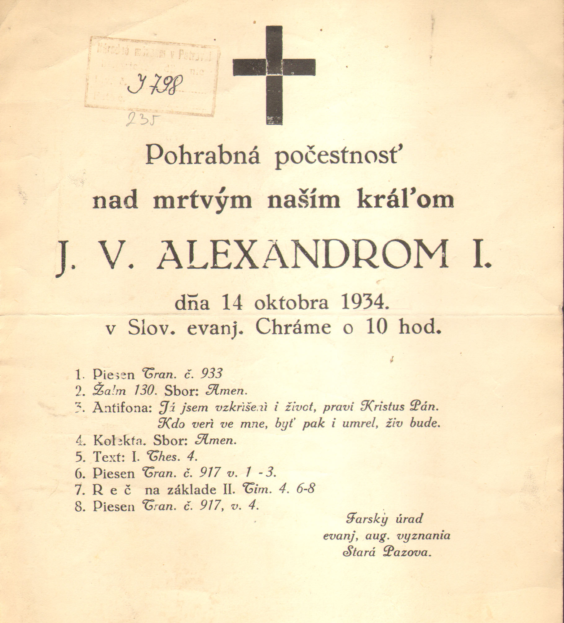 Order of memorial service dedicated to king Alexander I of Yugoslavia in Slovak Evangelical church in Stara Pazova (1934). Inventory number 235. Srpski (latinica): Program memorijalne službe posvećene kralju Aleksandru I Karađorđeviću u slovačkoj evangelističkoj crkvi u Staroj Pazovi (1934). Inventarski broj 235.